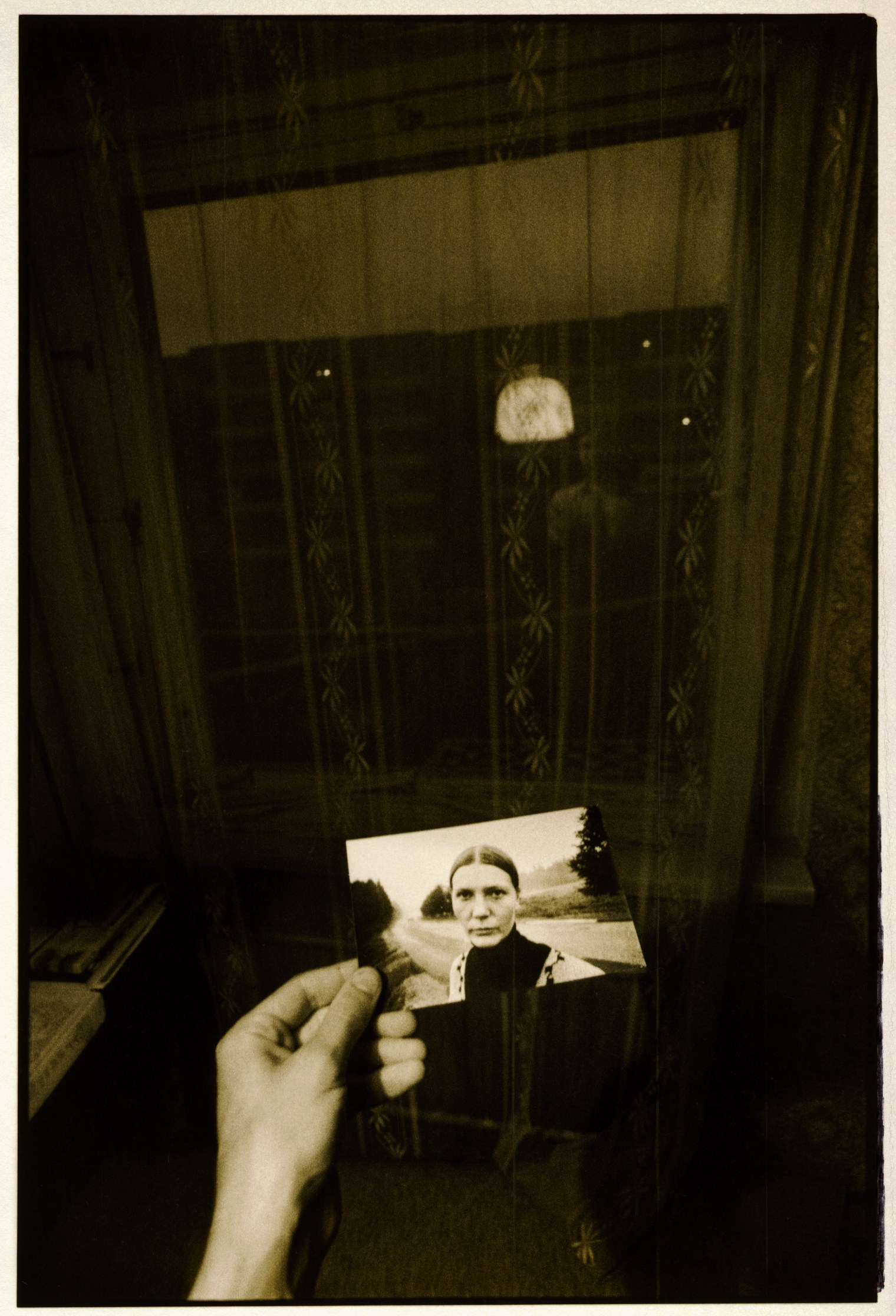 Aleksandras Ostašenkovas, Kitas krantas No149, Lithuania